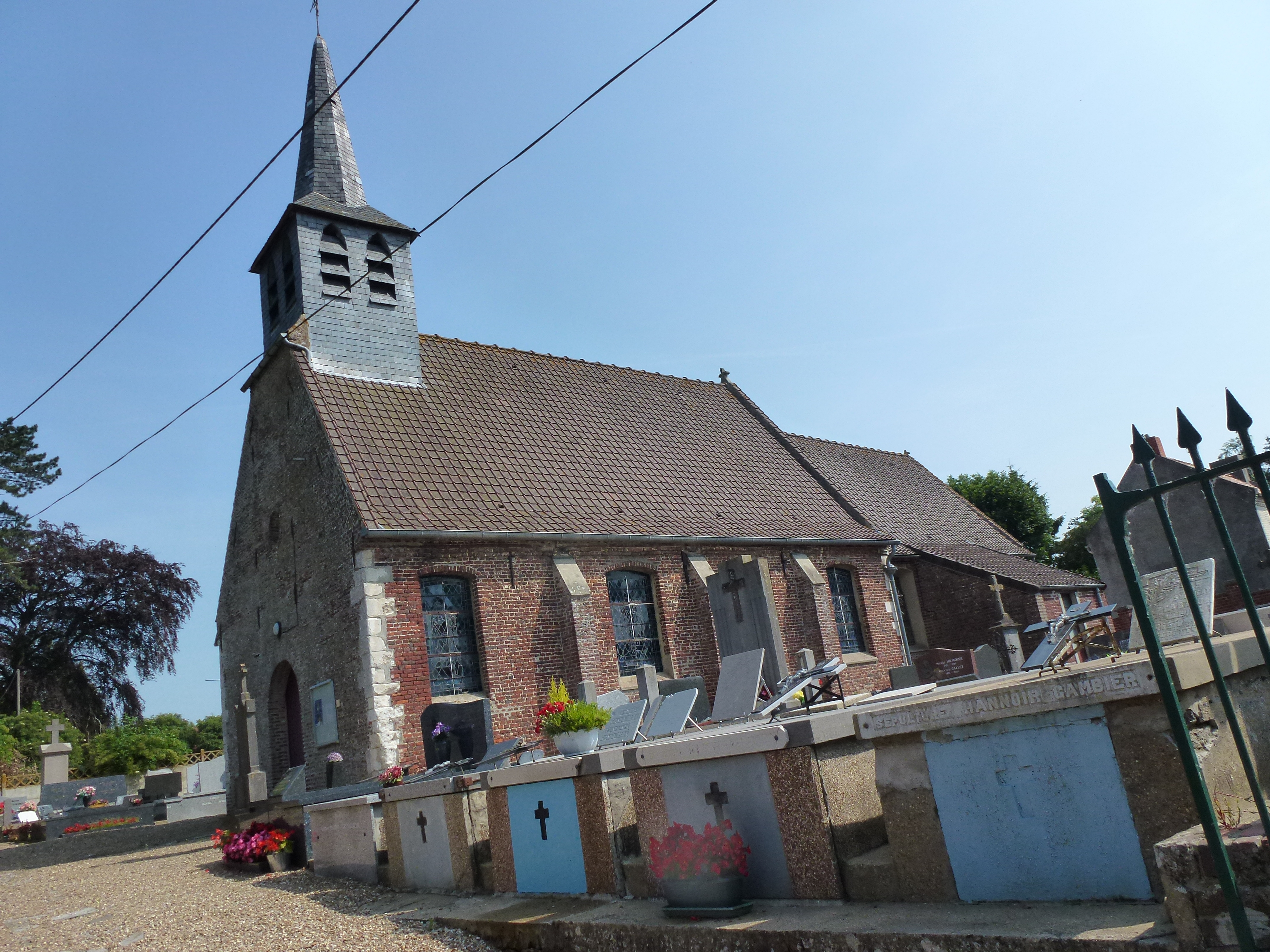 Aire-sur-la-Lys (Pas-de-Calais, Fr) église de Glomenghem